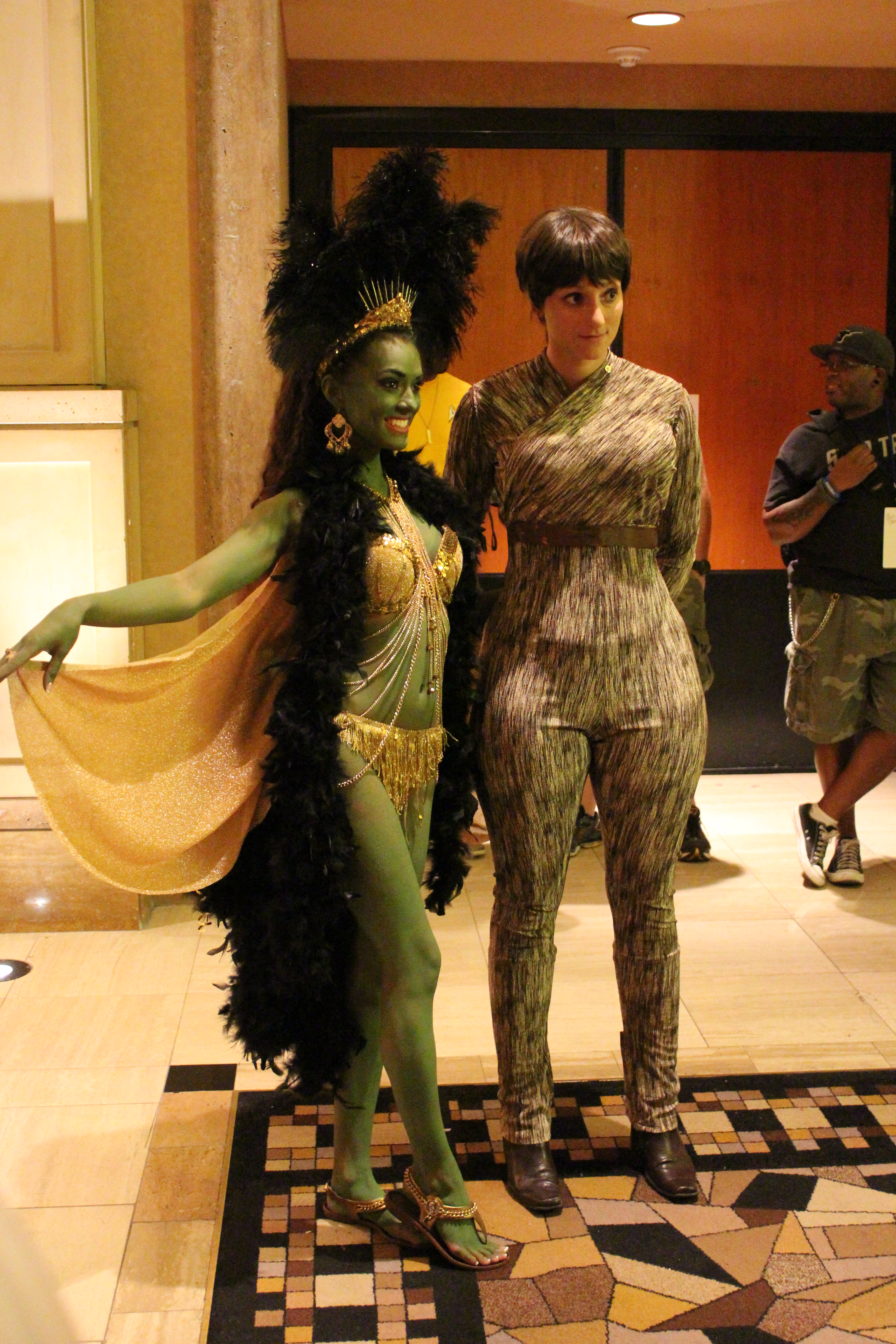 Cosplay of Star Trek at Las Vegas 2013 (Gaila at left)